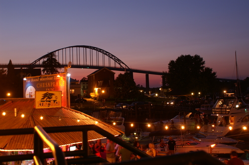 The Chesapeake City Bridge spanning the Chesapeake and Delaware Canal in Chesapeake City, Maryland. Built 1949.